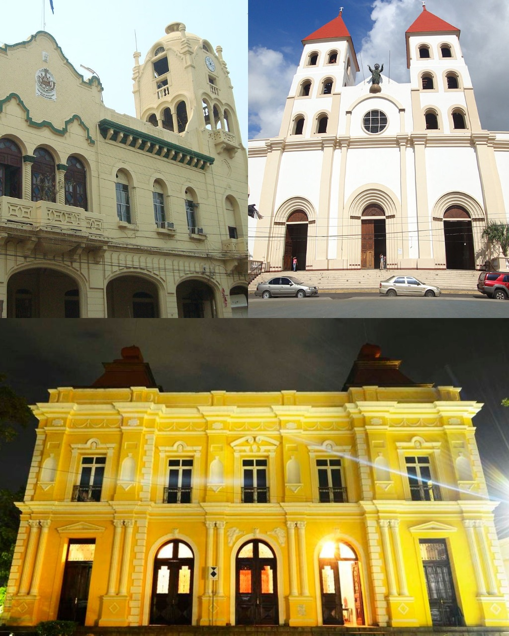 Photomontage of the city of San Miguel ES